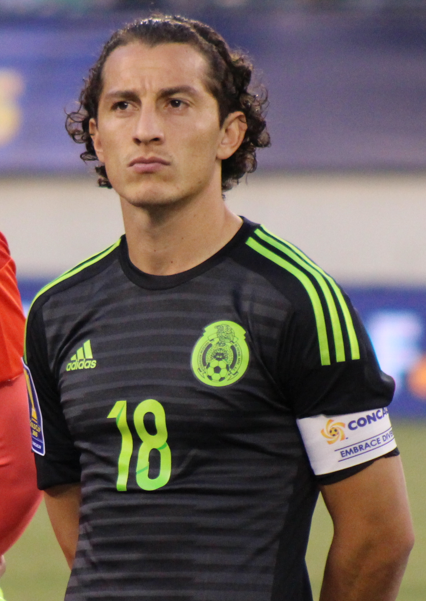 Andrés Guardado